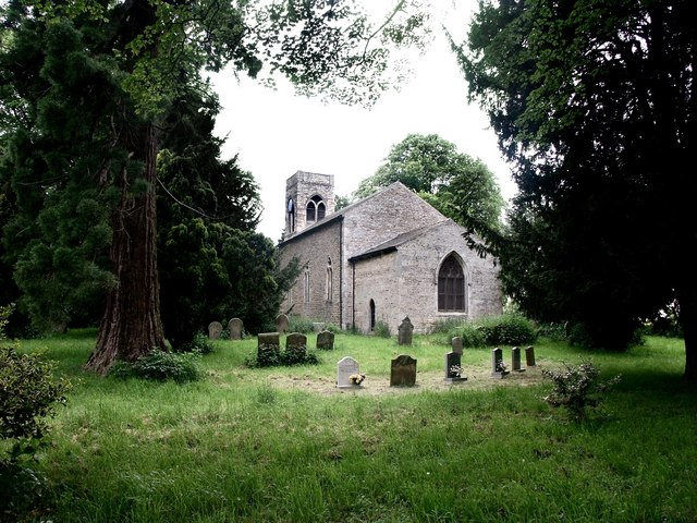 St Andrew, Fillingham Portions of the church of St Andrew date back to 1200 or so. It was partially reconstructed in 1777 and restored again in 1866. The church seats about 120. Parish registers exist from 1661, but the Bishop's transcripts go back to 1599. Unfortunately there were no keyholders around.